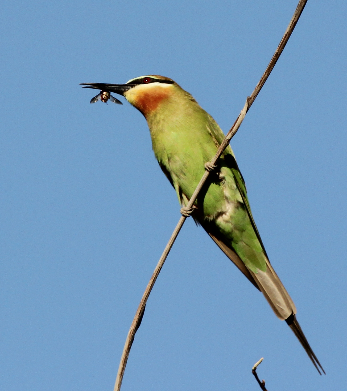 Madagascar Bee-eater (Merops superciliosus) with its prey on Isalo Ranch in Madagascar